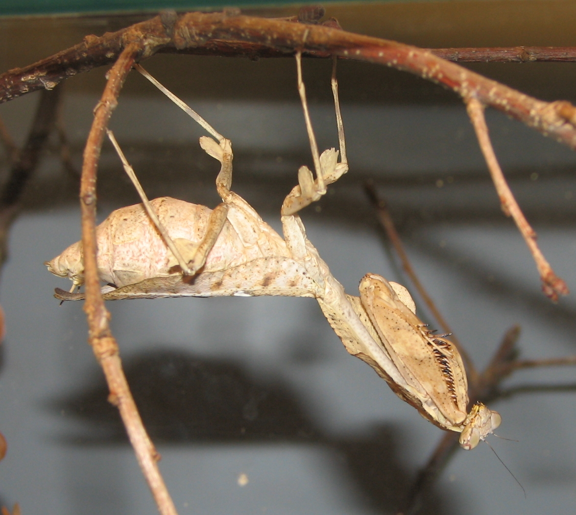 Dead-leaf Mantis (Deroplatys lobata)